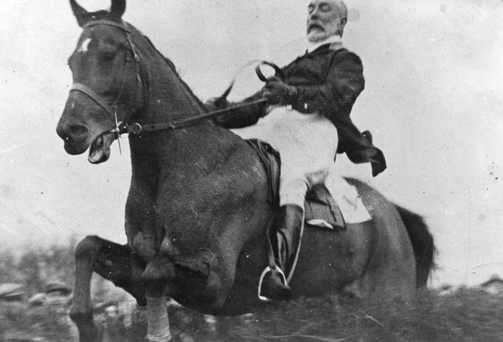 Sir Wilfrid Lawson, 3rd Baronet, Steeple Chasing